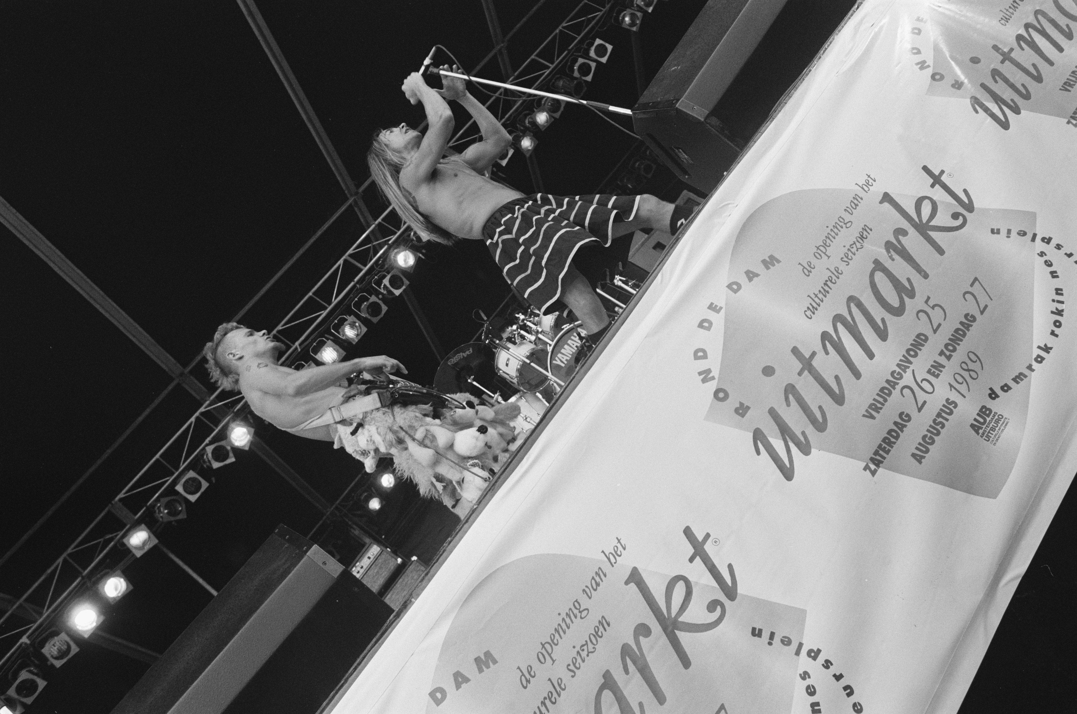 Red Hot Chili Peppers, Uitmarkt 26 Aug. 1989, Amsterdam (the Netherlands)